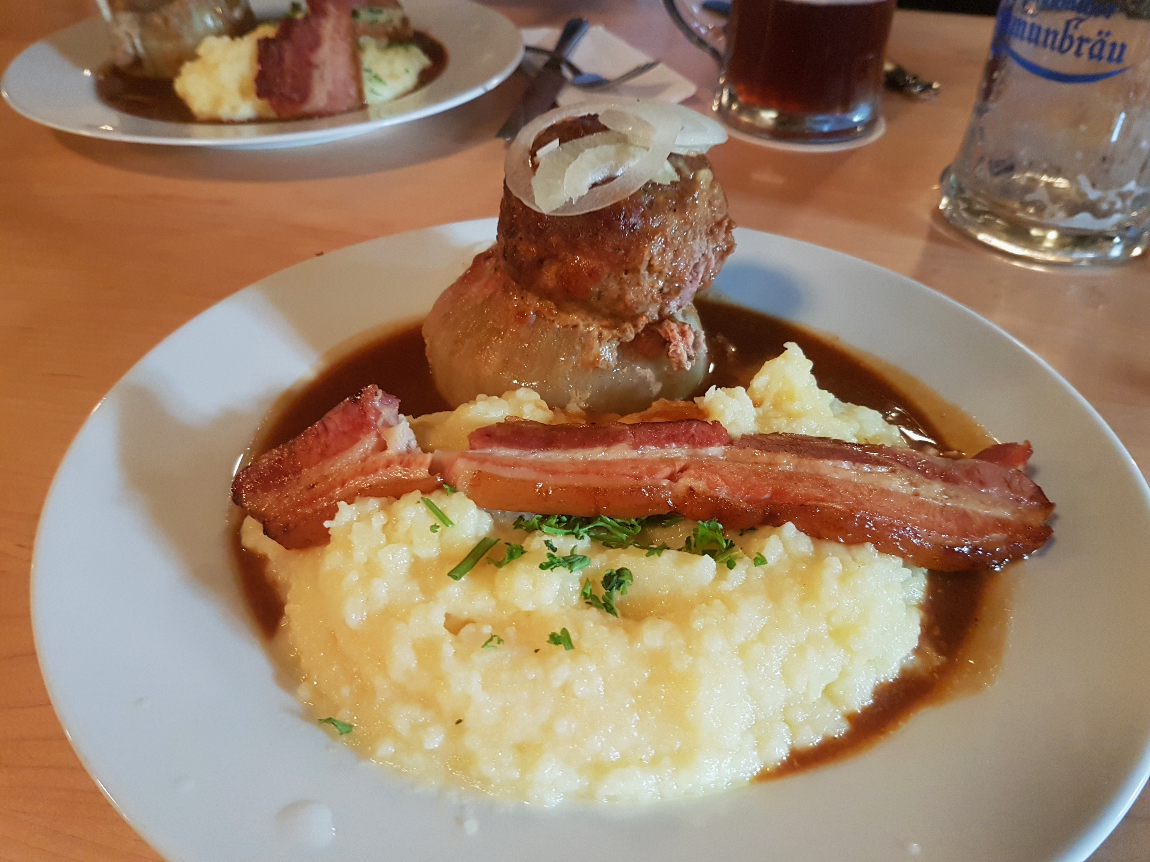 Kulmbacher Bierzwiebel - onion stuffed with minced meat from the oven with beer sauce, potato mashed potatoes and a slice of smoked belly. Photographed at the Kommunbräu in Kulmbach.